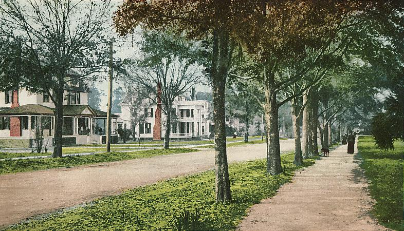 New York Avenue, DeLand, FL; from a 1905 postcard printed by the Detroit Publishing Company.